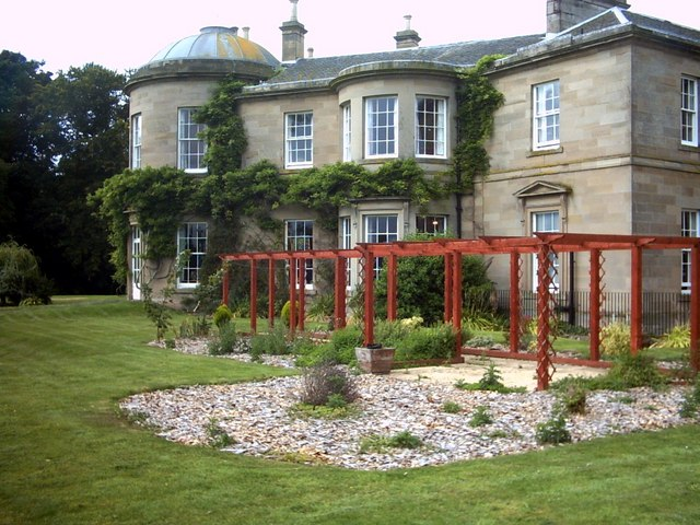 Lennel House. Now a nursing home, Lennel House dates from about 1820. Beatrix Potter spent some holidays here; her room is thought to have been the round room on the ground floor at the left of the picture.